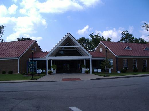 Visitor center of My Old Kentucky Home State Park in Bardstown, Kentucky